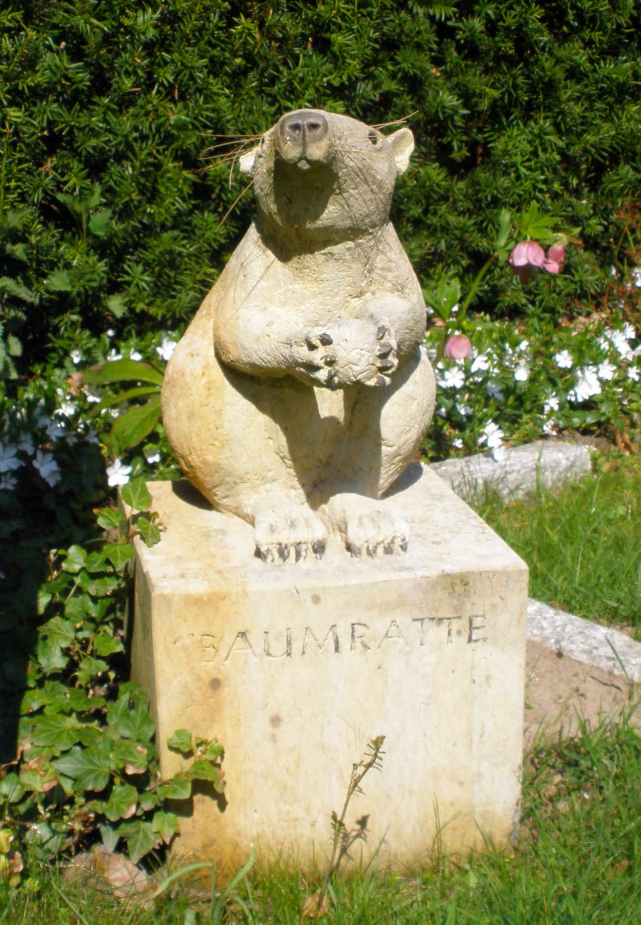 Grave of the zoologist Erna Mohr in the Garden of Women (Garten der Frauen), Ohlsdorf Cemetery, Hamburg, Germany.